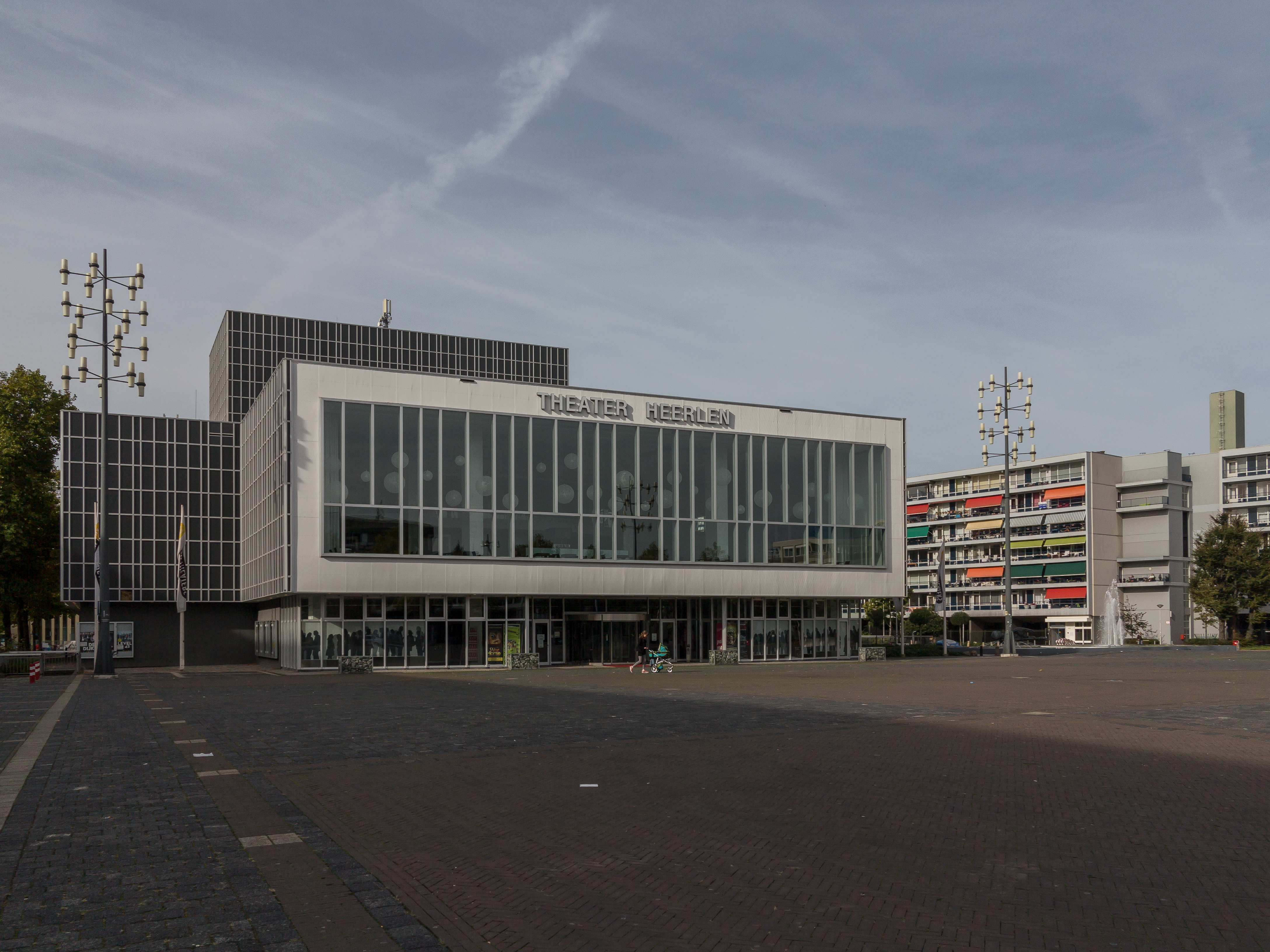 Heerlen, theater Heerlen